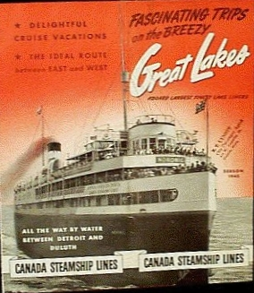 Brochure for the SS Noronic's 1942 season